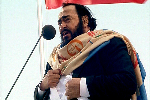 STRELNA. Tenor Luciano Pavarotti performing at the opening of the Constantine Palace in Strelna.